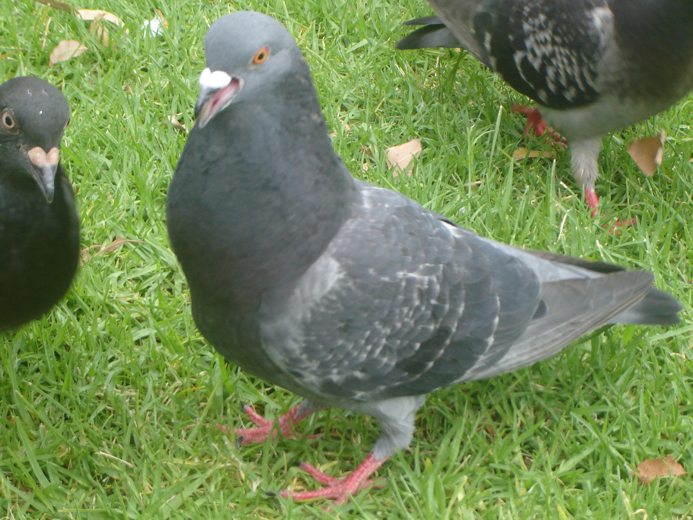 A Chequered Rock Dove (otherwise known as a feral pigeon) in a city park